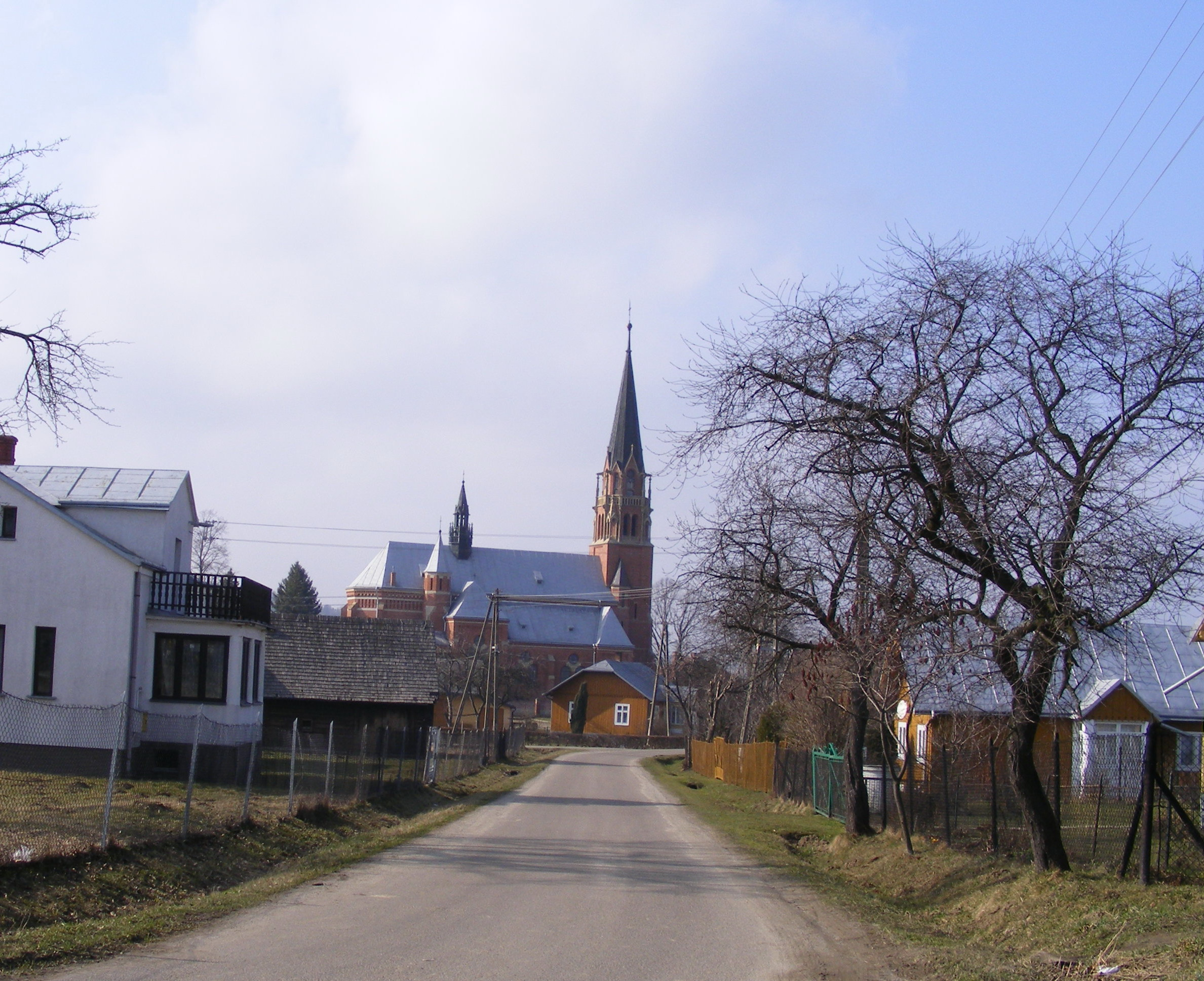 Bobrka, viewed from the east.